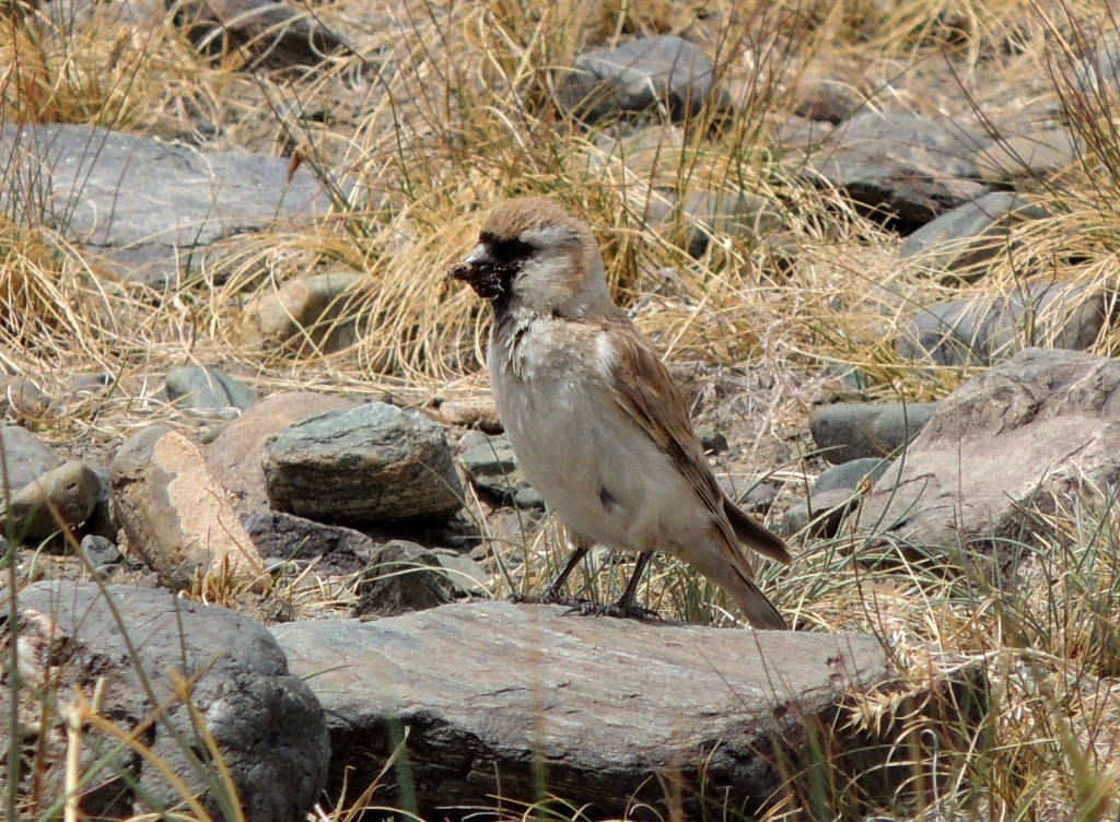 Père David's Snowfinch in Altai, Russia